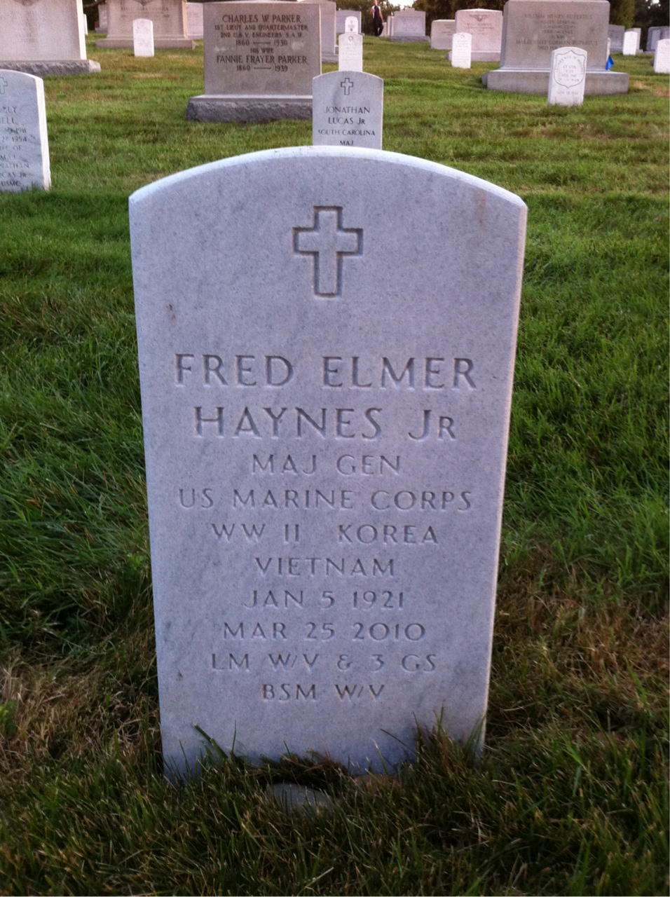 Grave of Fred E. Haynes Jr. at Arlington National Cemetery